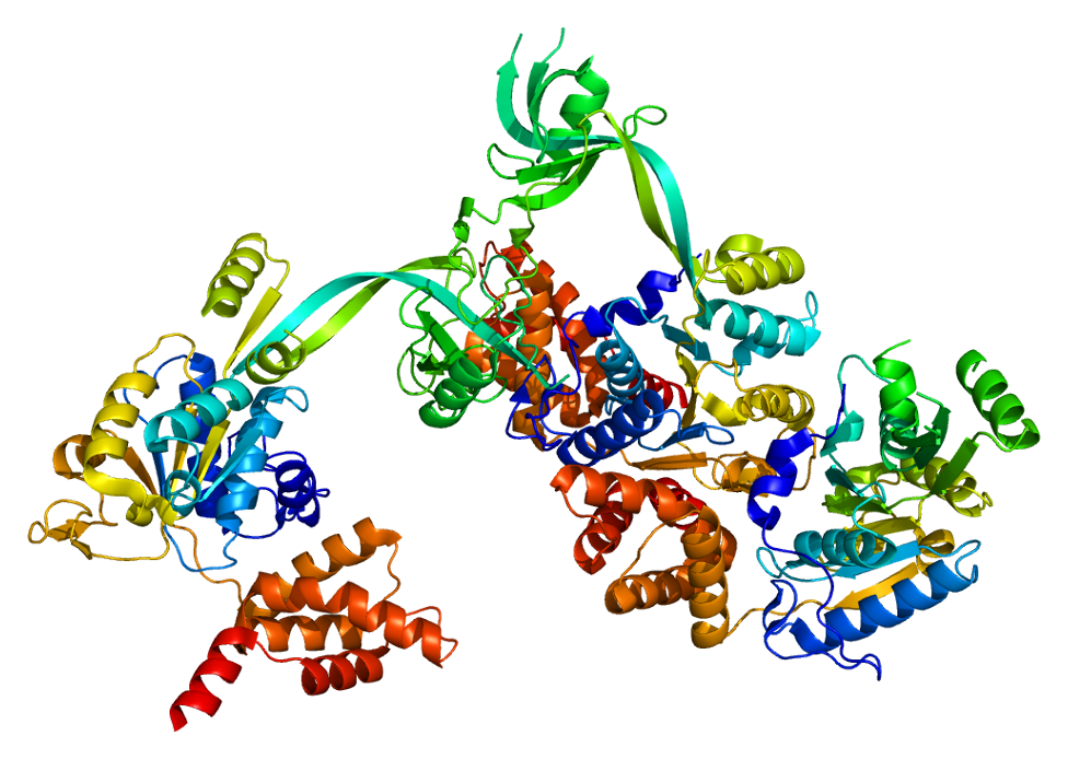 Structure of the RUVBL1 protein. Based on PyMOL rendering of PDB 2c9o.